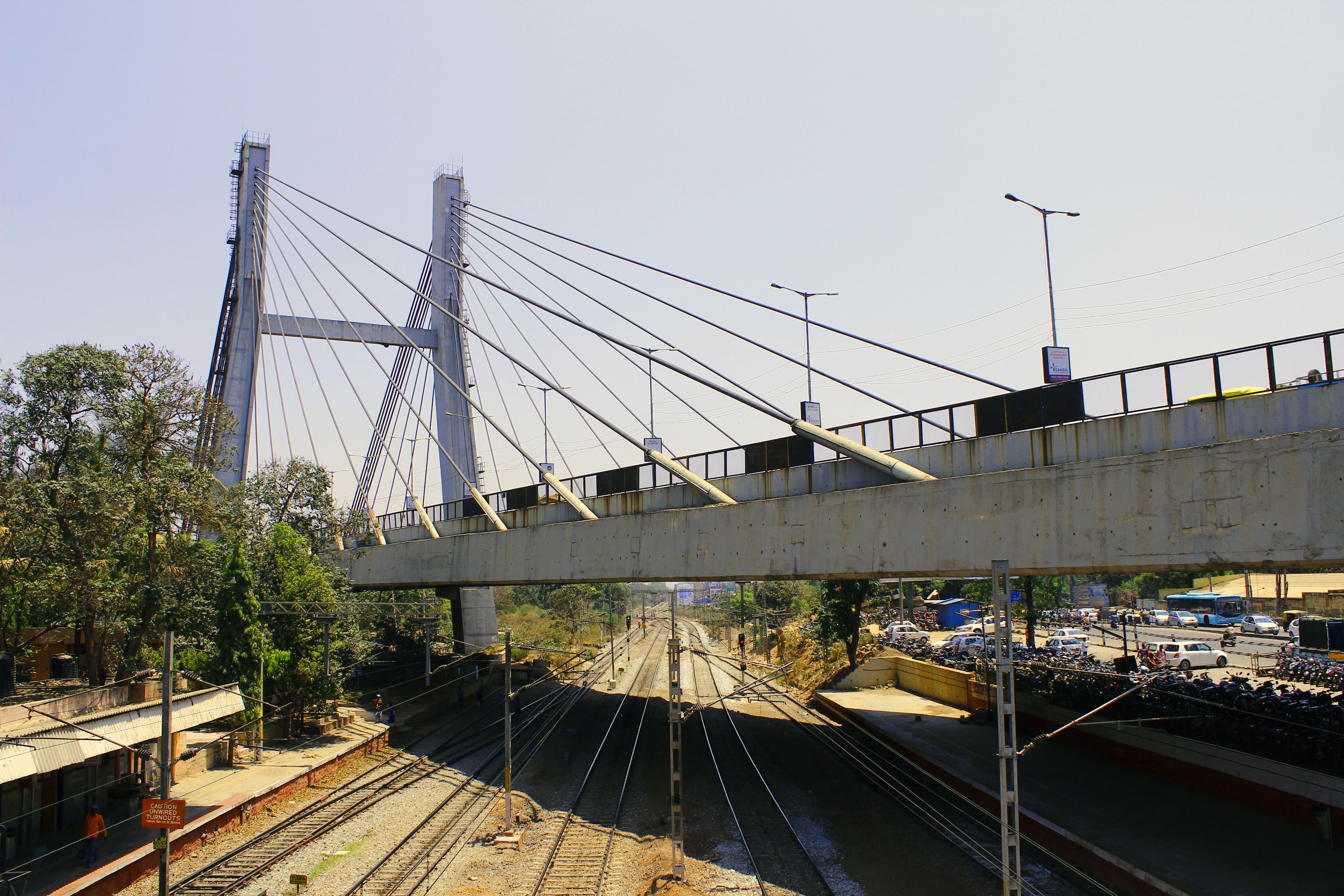 Hanging Bridge on Old Madras Road National Highway 4, above Krishnarajapuram Railway Station.